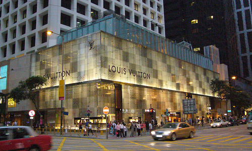 This is the LV branch in Hong KongThis is the LV branch in Hong Kong